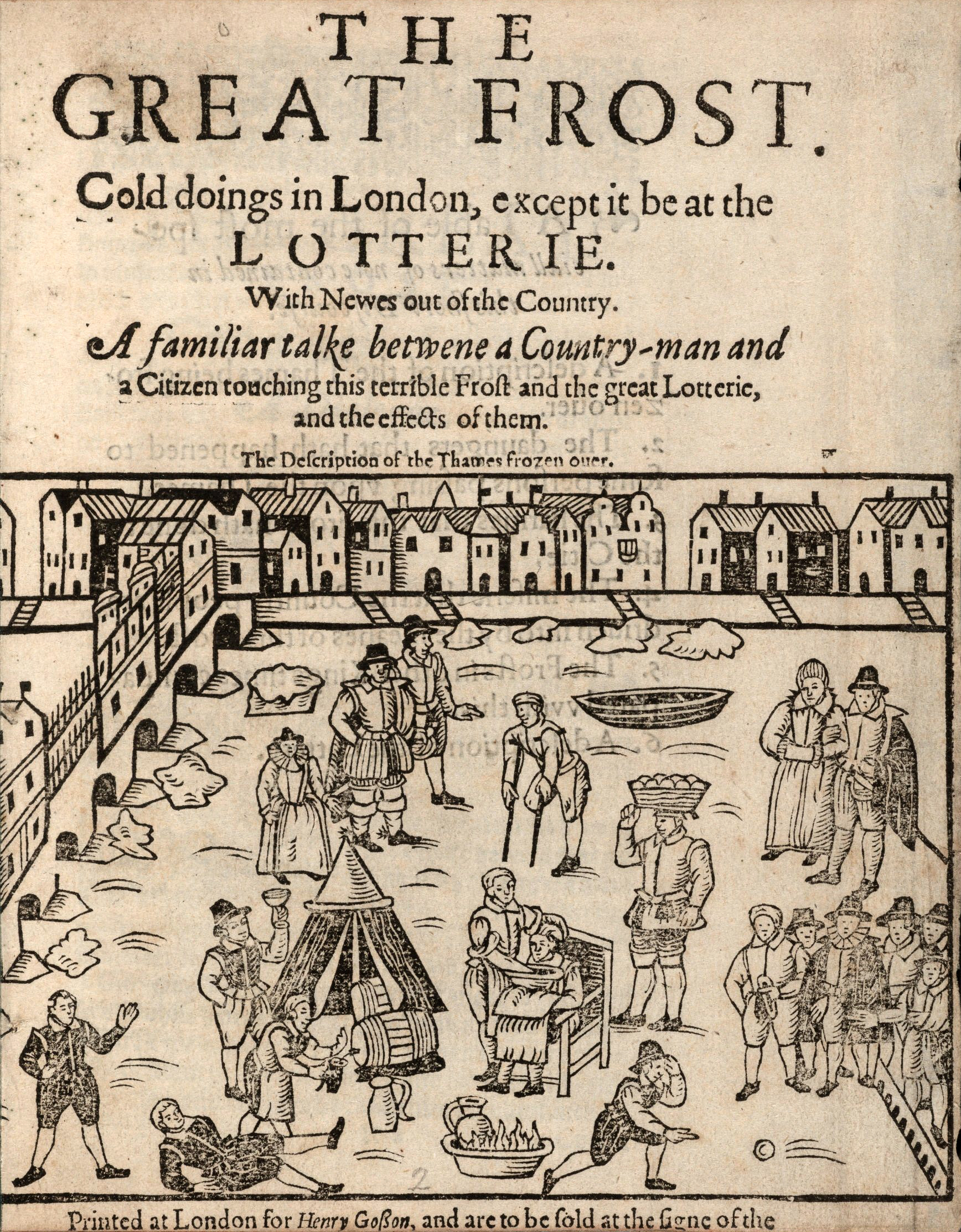 Title page from The great frost: cold doings in London, except it be at the lotterie. With newes out of the country. A familiar talk betwene a country-man and a citizen touching this terrible frost and the great lotterie, and the effects of them. Printed at London: For Henry Gosson, 1608. Attributed to Thomas Dekker Dekker (approx. 1572-1632). STC 11403, Houghton Library, Harvard University